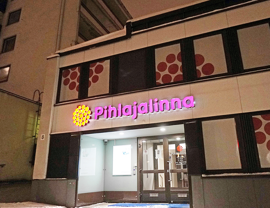 Entry to the Pihlajalinna health company on the street Cygnaeuksenkatu in Jyväskylä.This photograph was taken with a Sony ILCE-5000